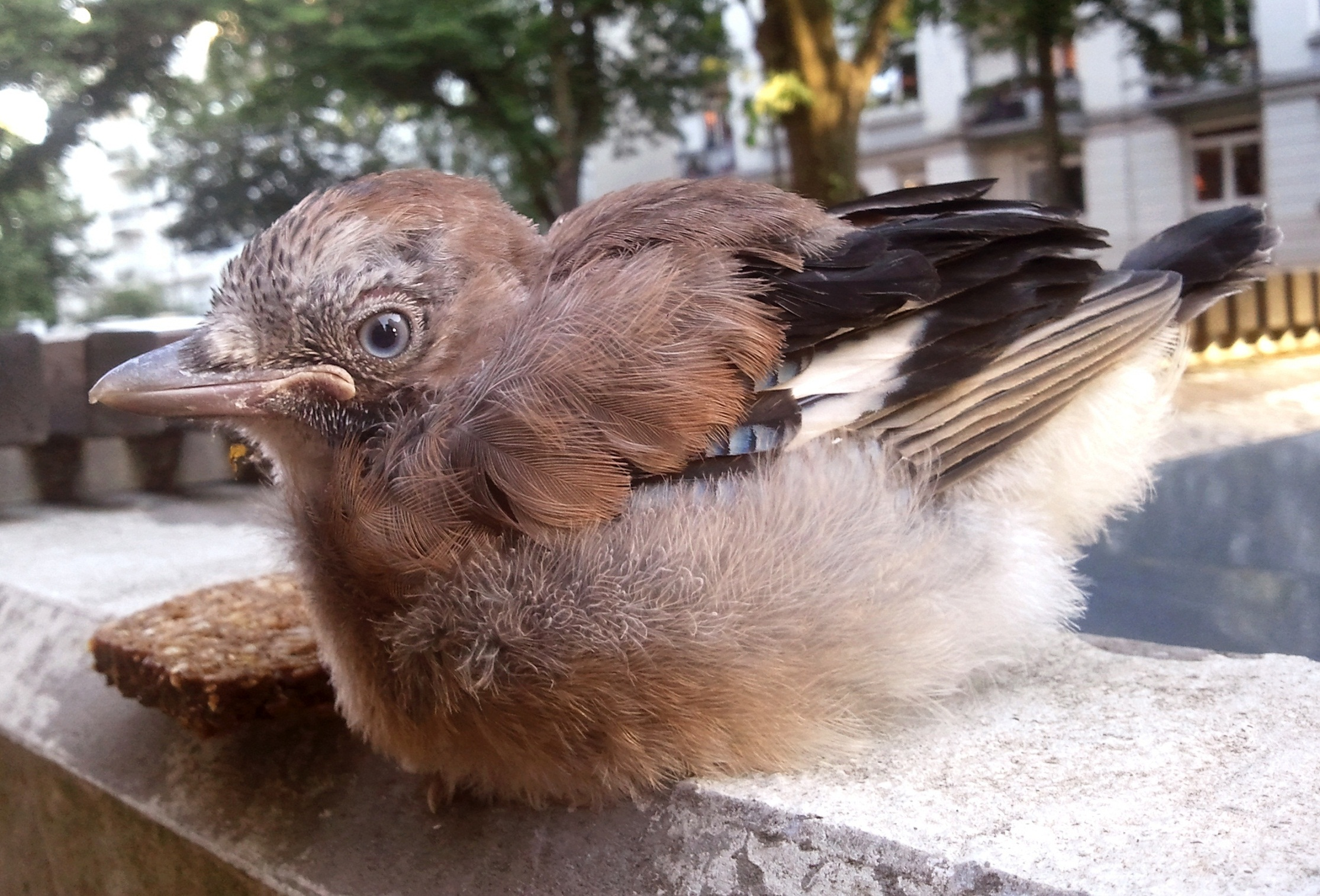 Young Eurasian jay (Garrulus glandarius).